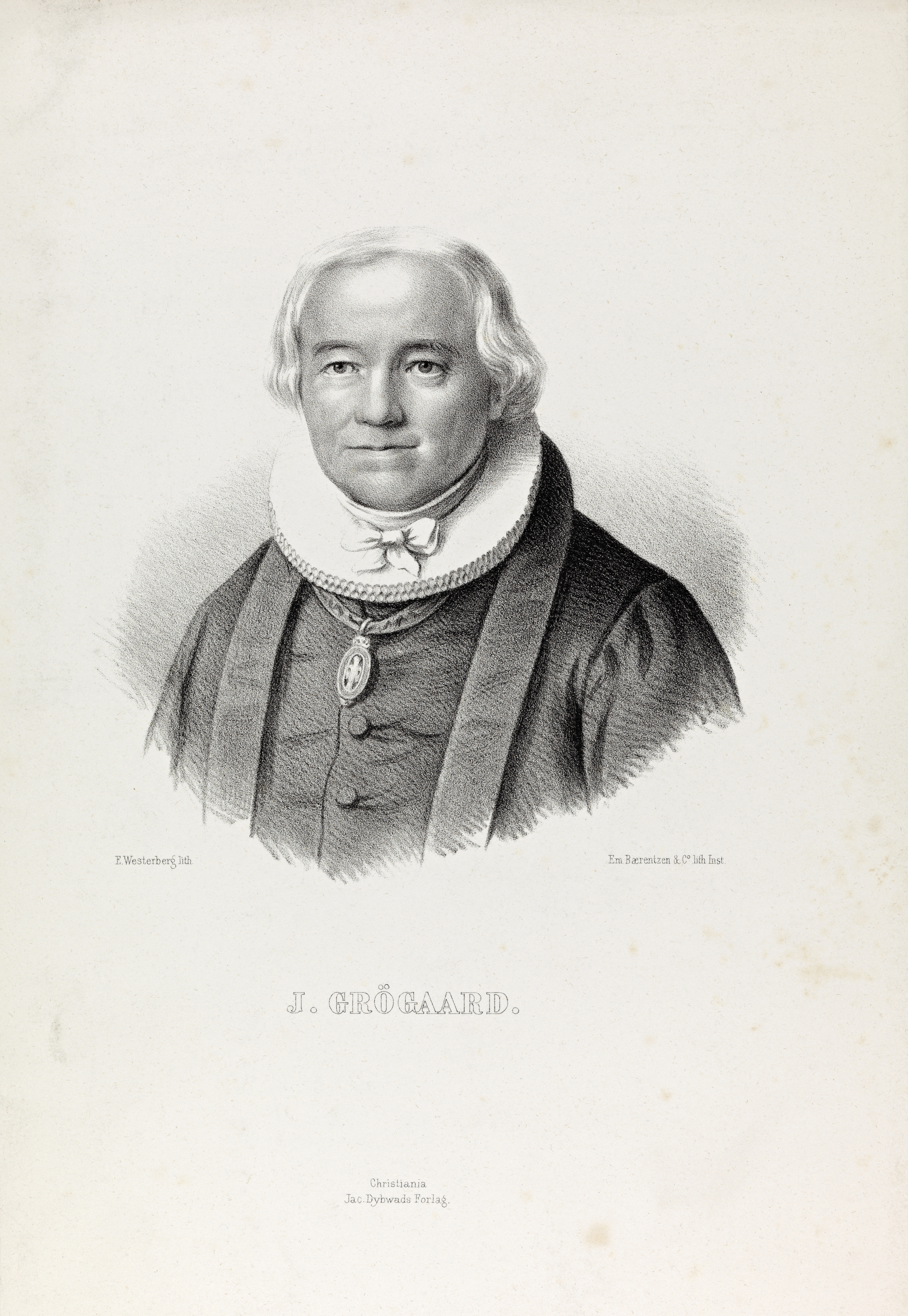 Tittel / Title: Portrett av Hans Jacob Grøgaard (1764-1836) Beskrivelse / Description: Litografi. På Eidsvoll tilhørte Grøgaard unionspartiet. Dato / Date: ukjent / unknown Kreditering / Credit: E. Westerberg lith., Em. Bærentzen & Co lith. Inst., Jac. Dybwads Forlag (Christiania) Eier / Owner Institution: Nasjonalbiblioteket / National Library of Norway Bildesignatur / Image Number: blds_05623